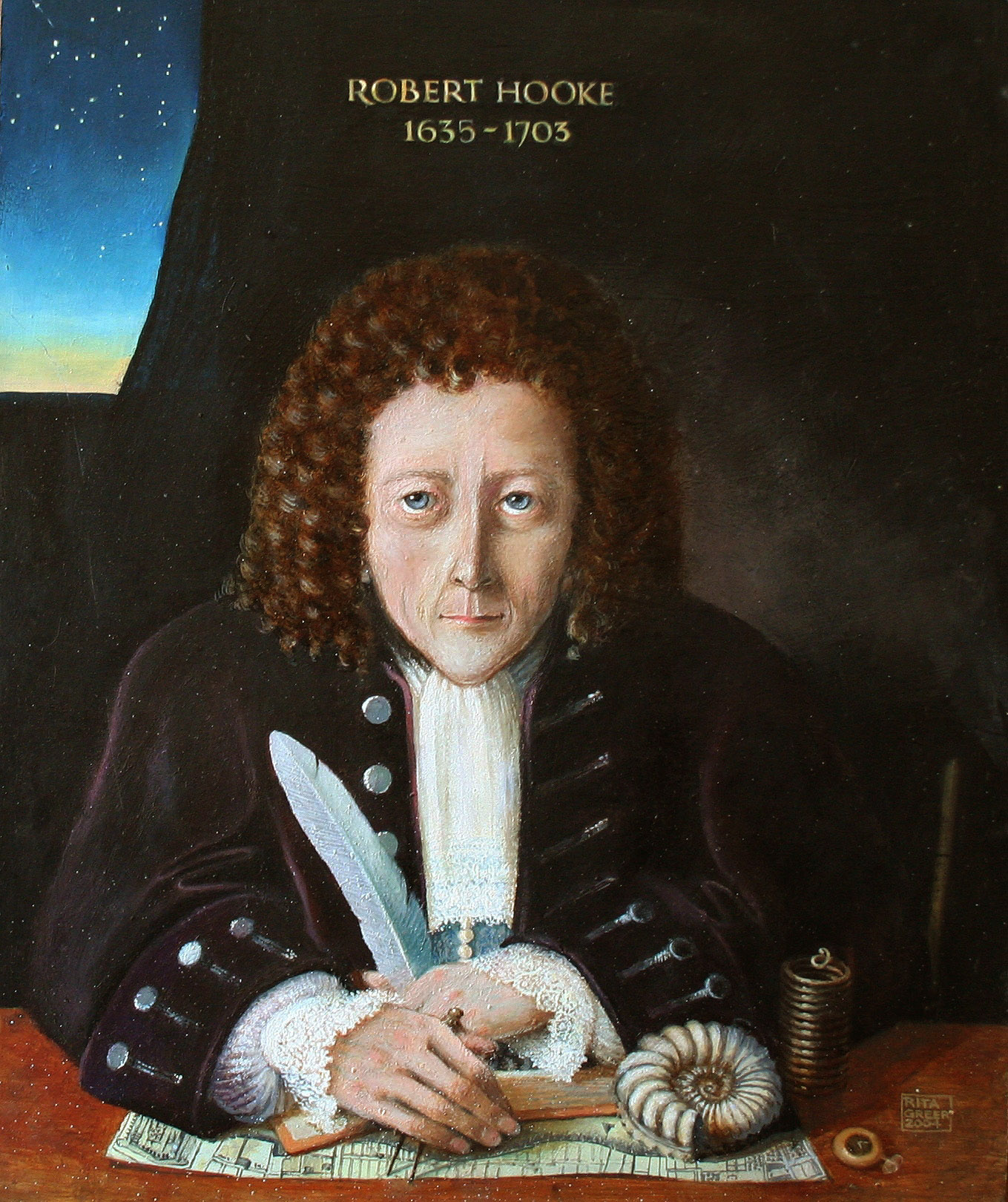 As no contemporary portrait of Robert Hooke seems to have survived from the seventeenth century, this one is a reconstruction from the descriptions by his colleagues Aubrey and Waller. It shows him with a spring, pocket watch, fossil and map of the City of London after the Great Fire of 1666. He helped to survey and plan the rebuilding. The sky on the left indicates his interest in astronomy.